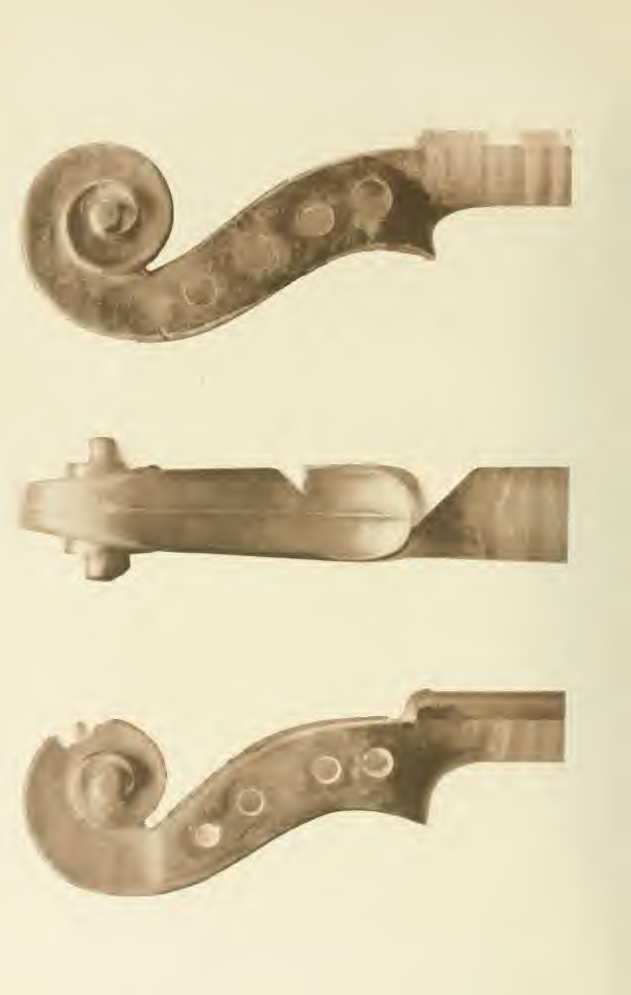 Three Maggini violin heads. From top to bottom: Maggini de Bériot Maggini Captain Warner (back) Maggini Captain Warner (side)